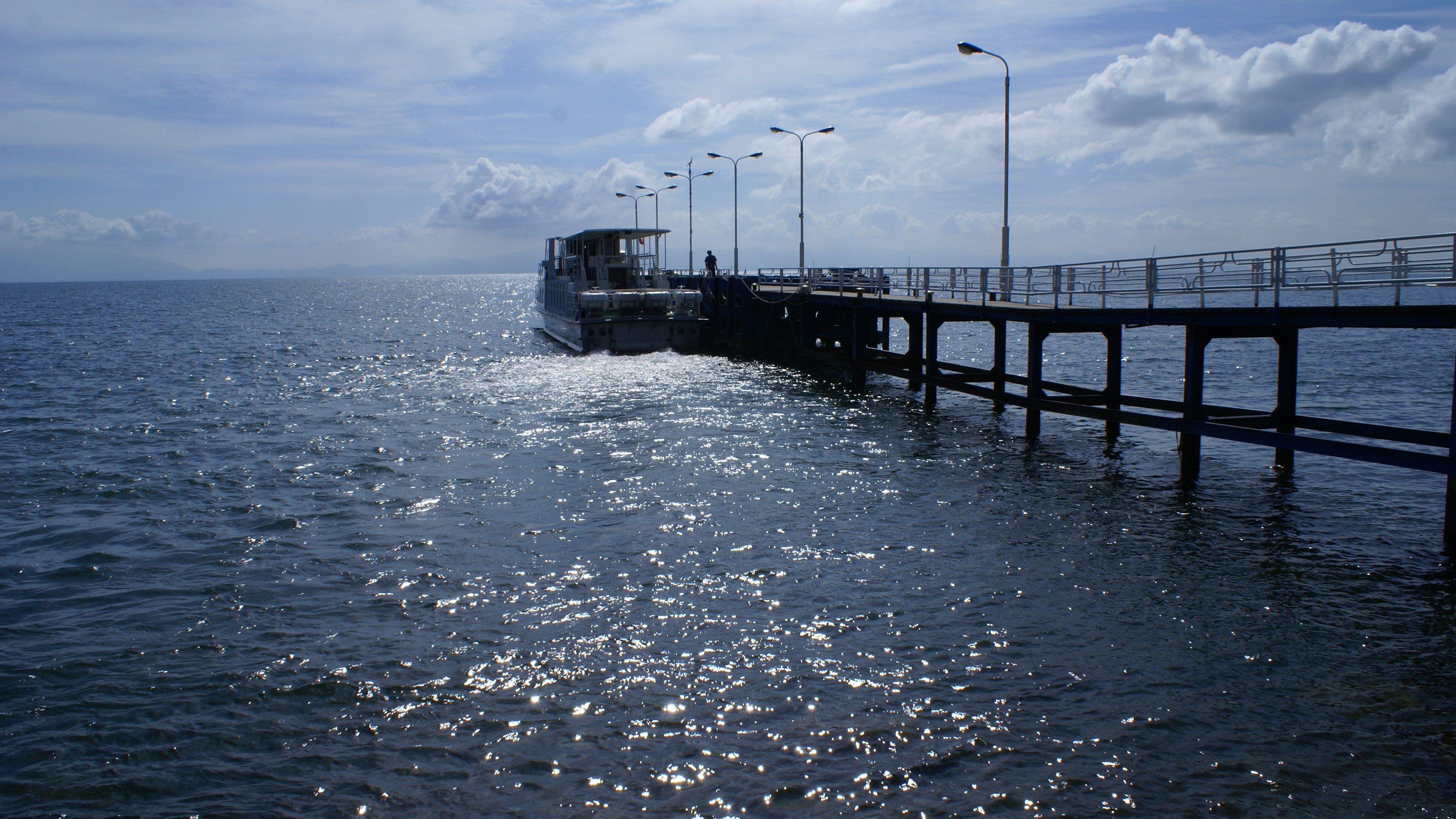 Port of Imazu in Takashima, Shiga, Japan